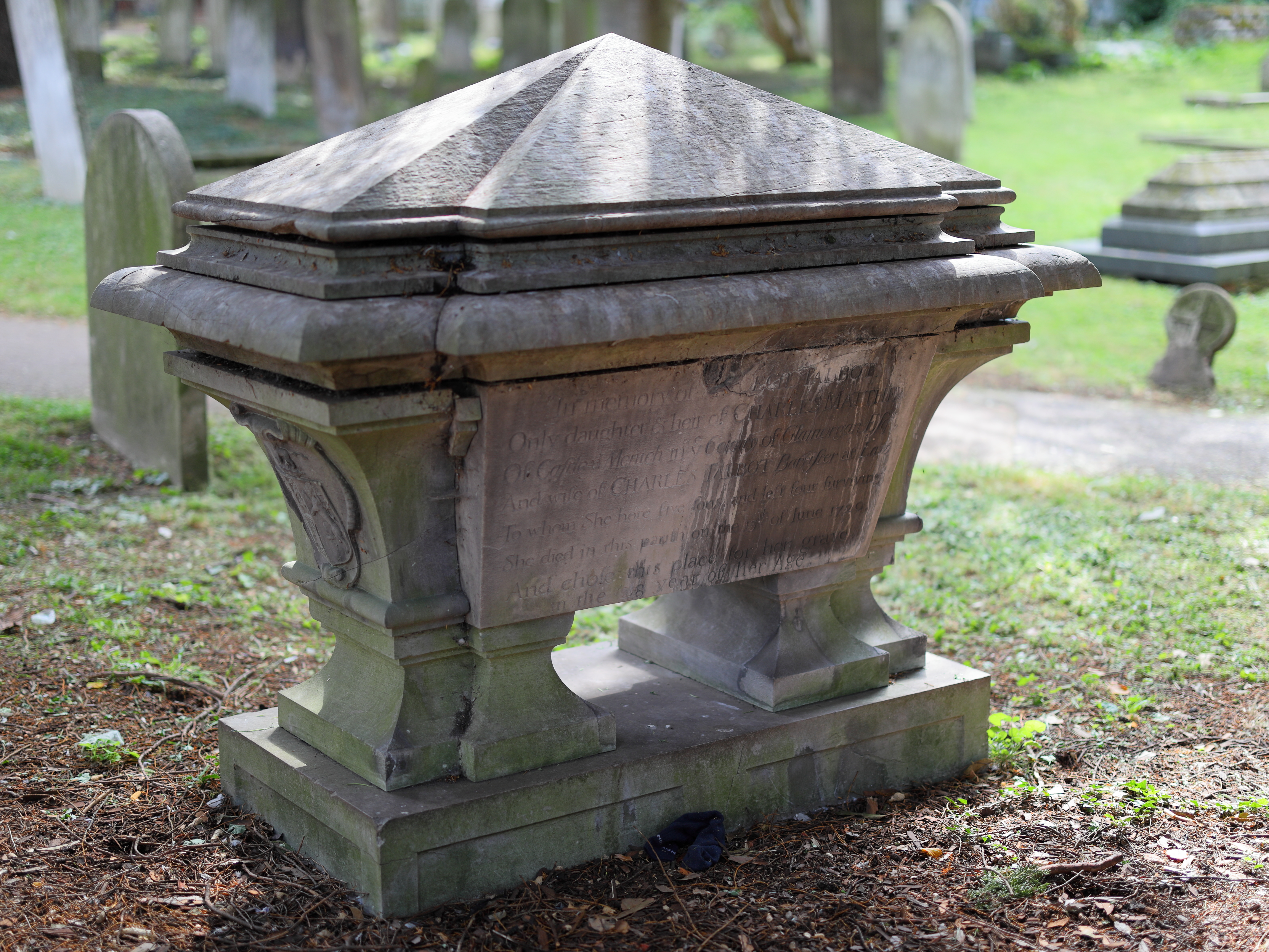 Tomb of Cecil Talbot, wife of Charles Talbot, located within the churchyard of St Nicholas Church in Sutton. Wikidata has entry Q66479003 with data related to this item.